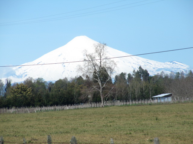 Montanha típica do Chile.